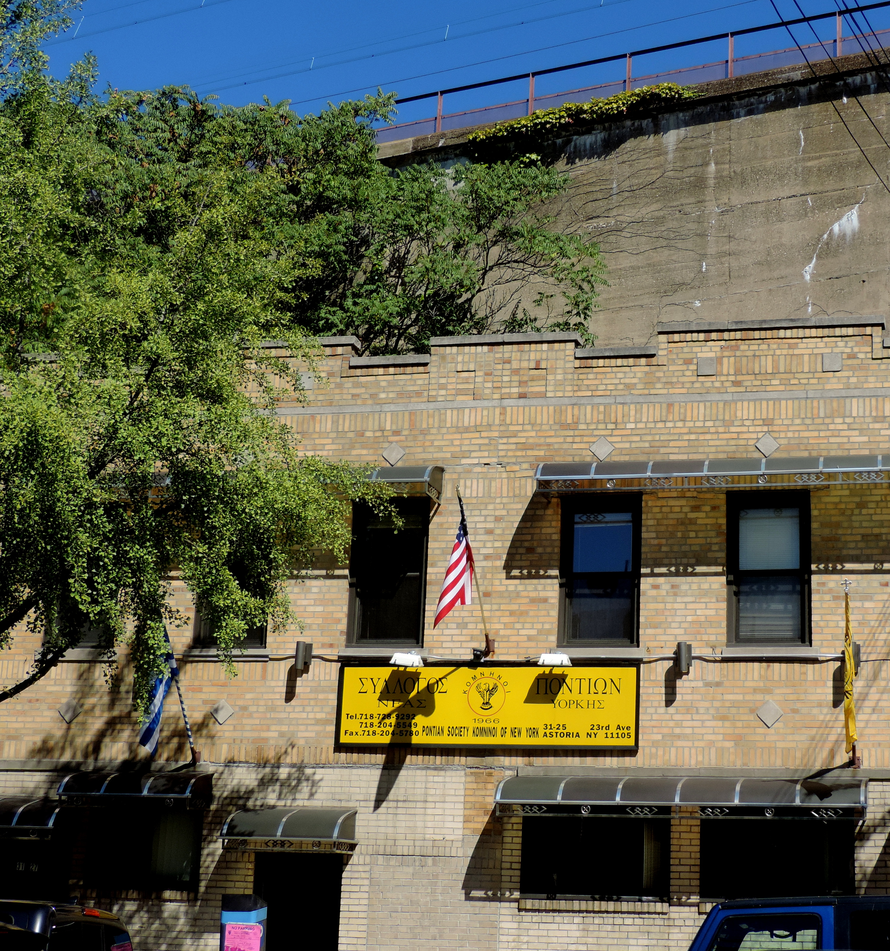 Looking northeast at Pontian Society on a sunny midday